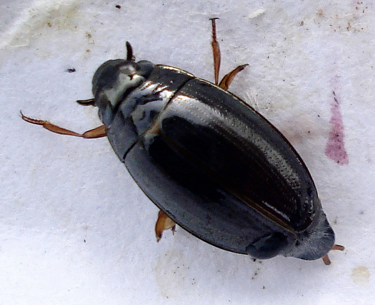 An imago of Gyrinus natator.